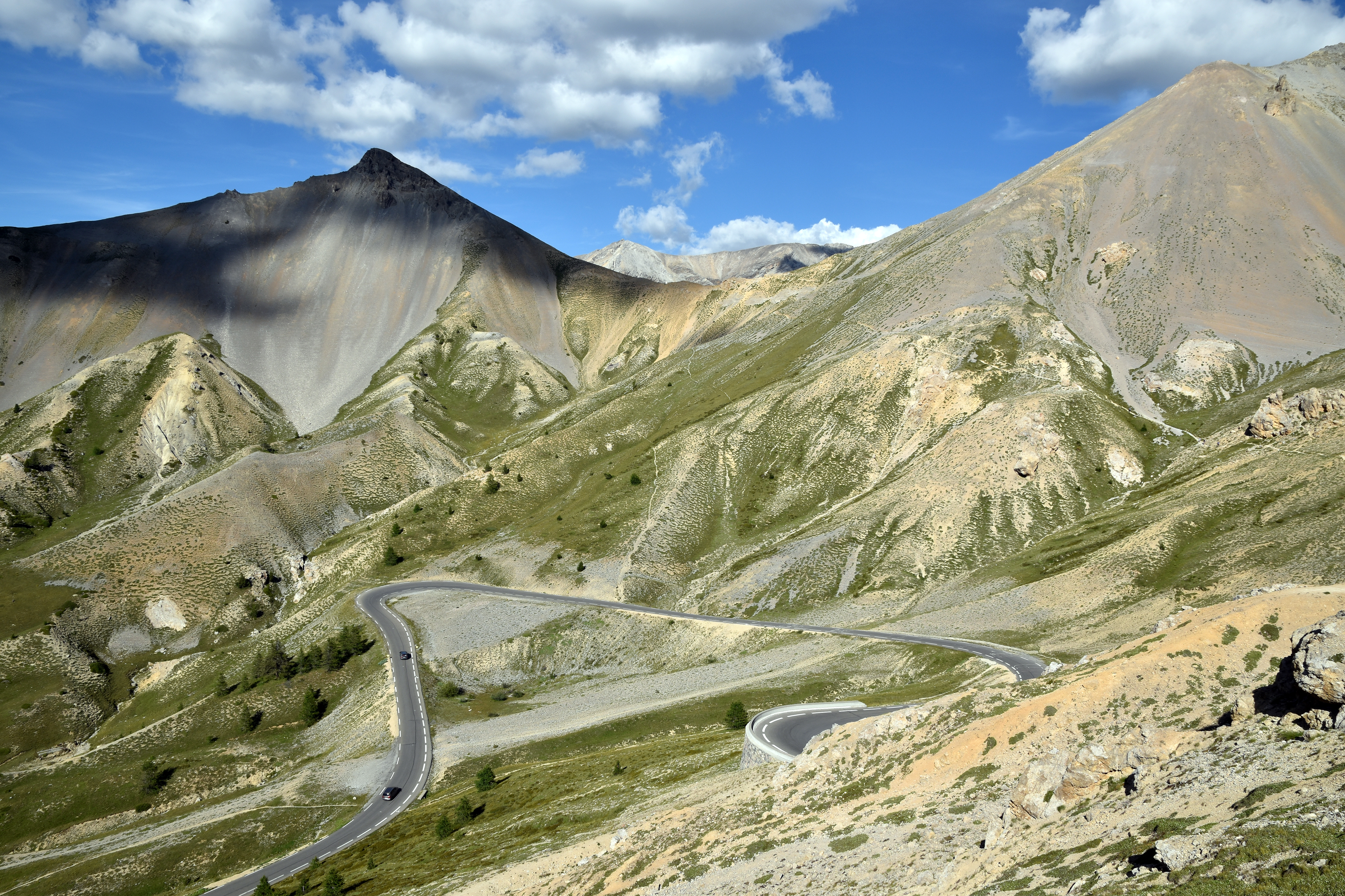 The view from the top of Col d'Izoard, Hautes Alpes,France